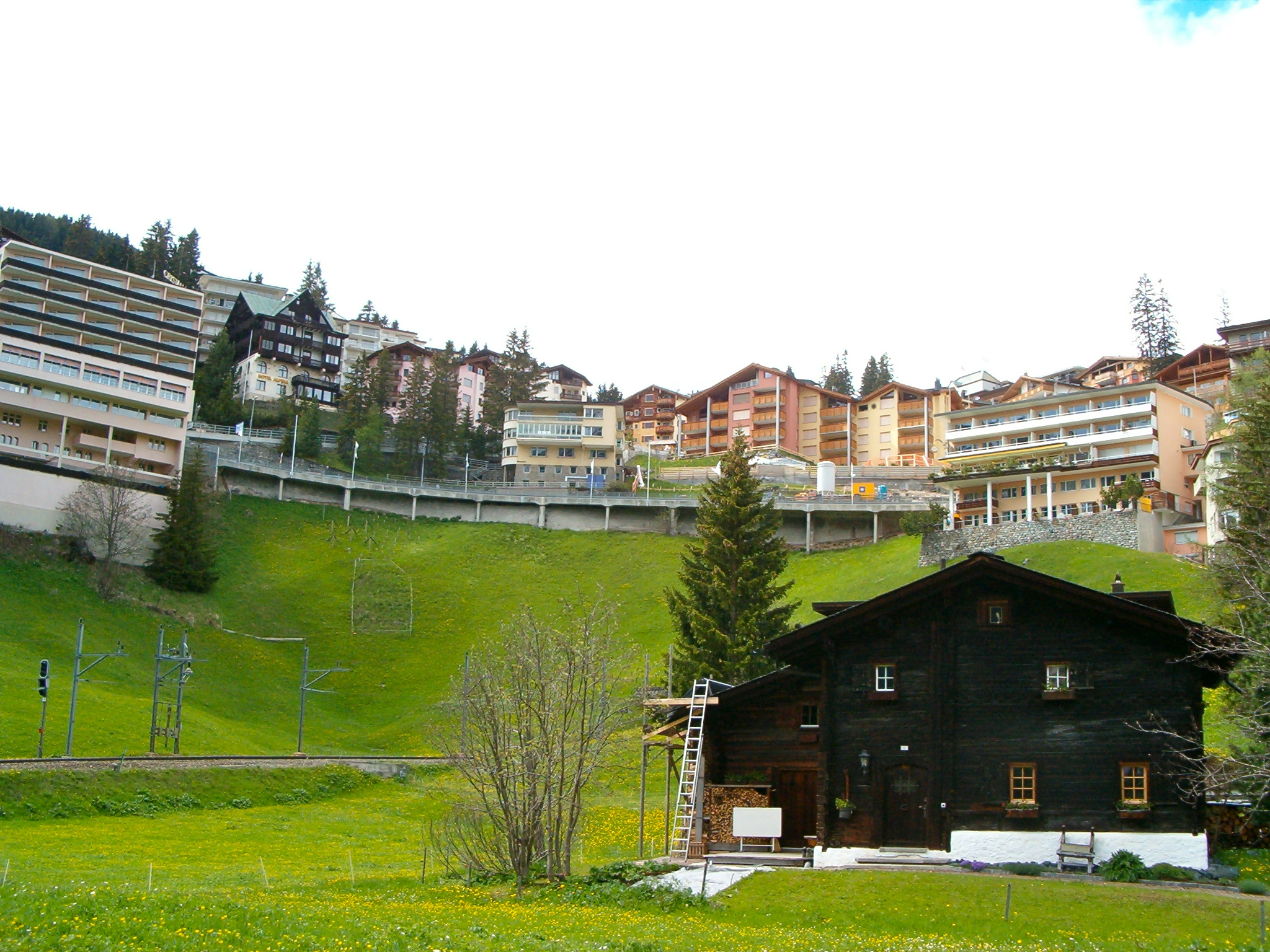 Old Walserhouse "Joeri Jenny" in the middle of modern Arosa/Switzerland